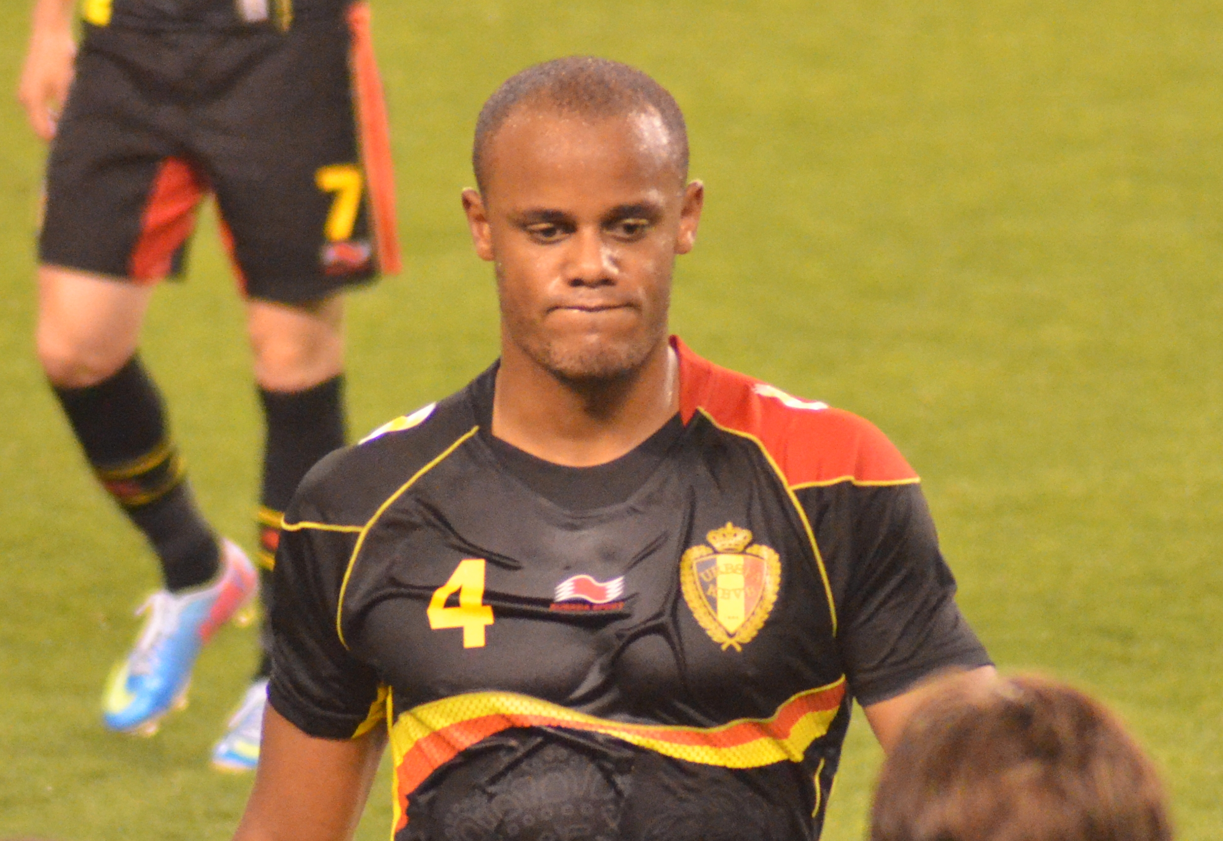 Vincent Kompany with Belgium before a match against the United States on 29 May 2013